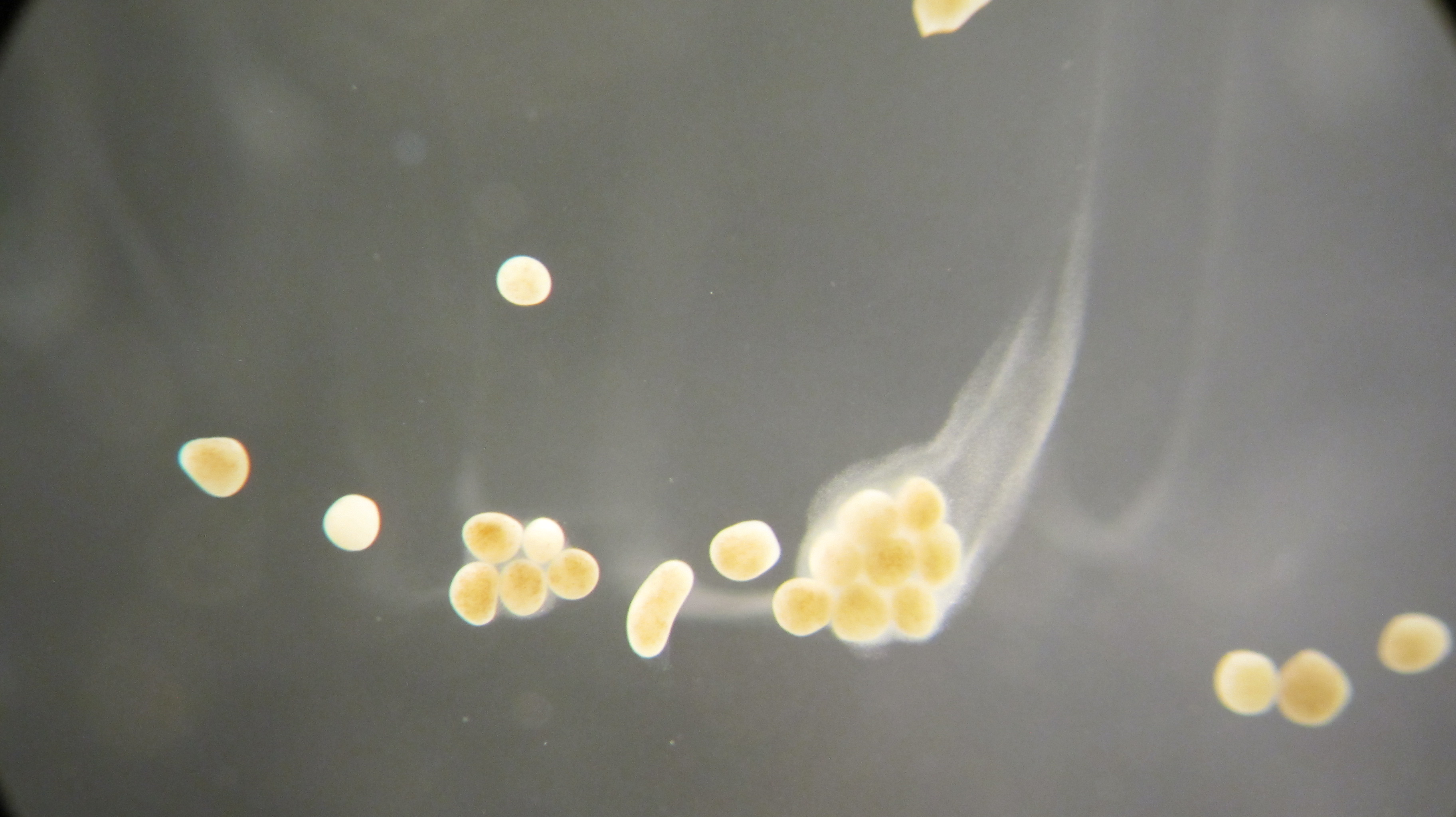 Montipora capitata coral gamete bundle breaking apart. Eggs/sperm packaged together and spawned summer 2016 at Kewalo Marine Lab